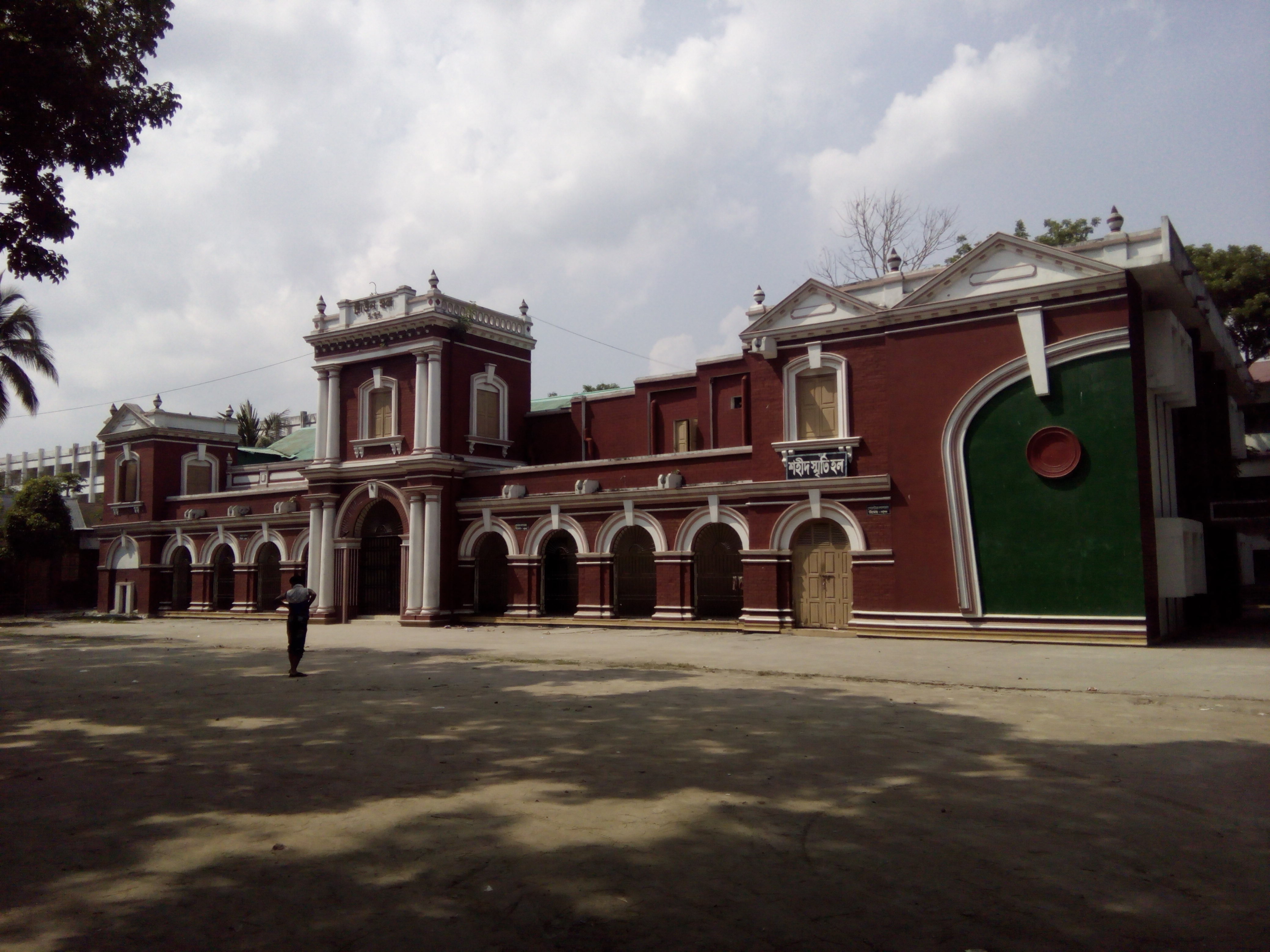 Rangpur town hall